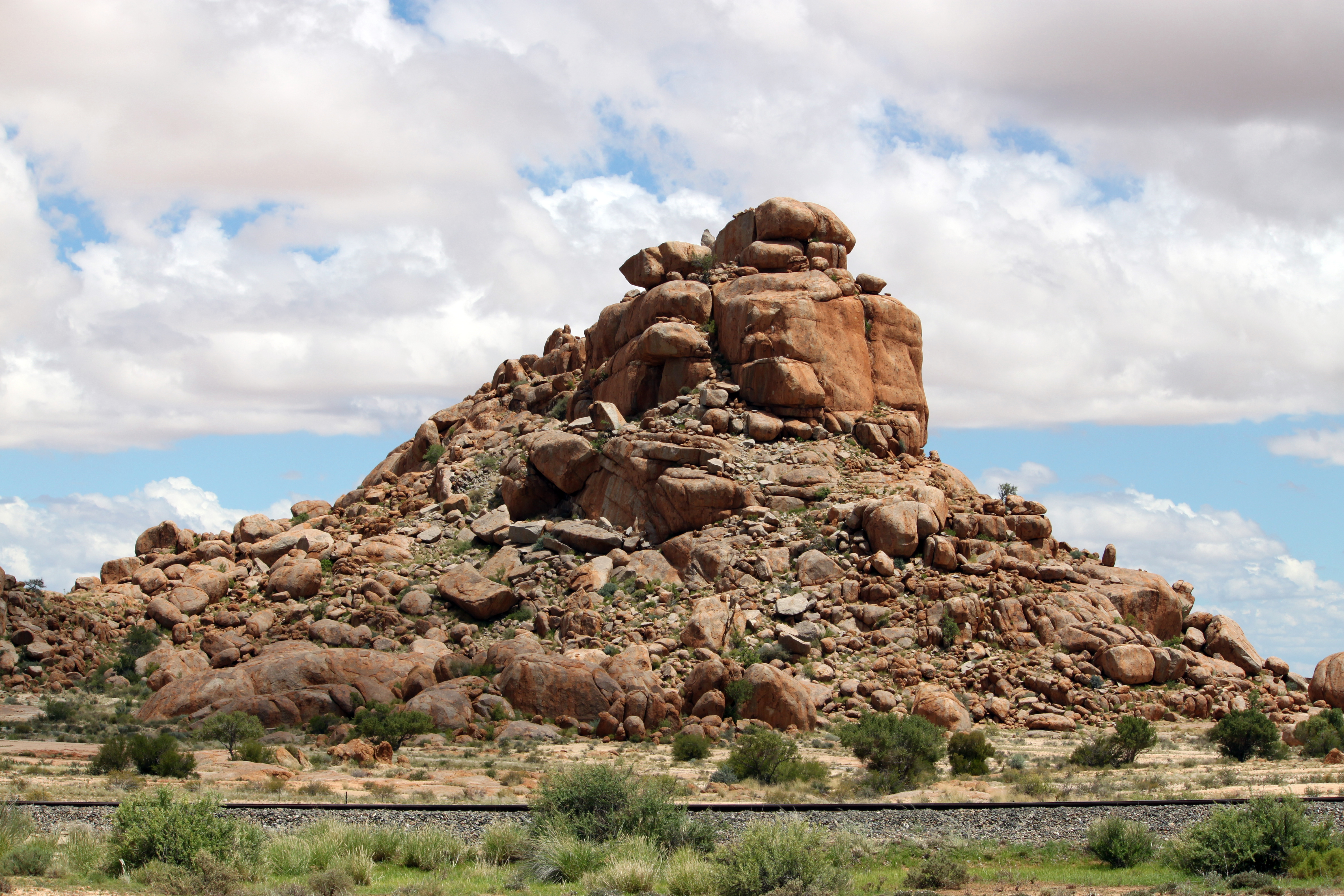 Landscape near Warmbad, Namibia